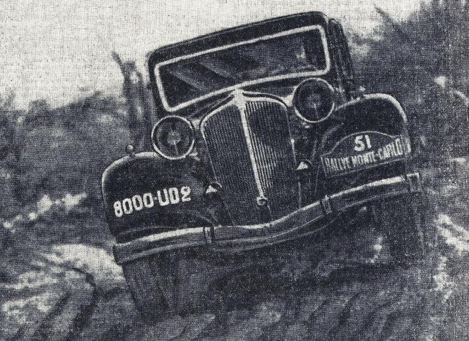 Entry #51 in 1935 Rallye Monte Carlo was a Renault Nervasport CS 5,540 ccm engine, french license "8000-DU2" driven by Charles Lahaye and co-driver René Quatresous. They became this years winner. This picture is from around Stavanger on the (then snowfree?) southwest coast of Norway, which is where they had started on January 19, 1935,[1] and followed the route Stavanger-Oslo-Copenhagen-Hannover-Bruxelles.